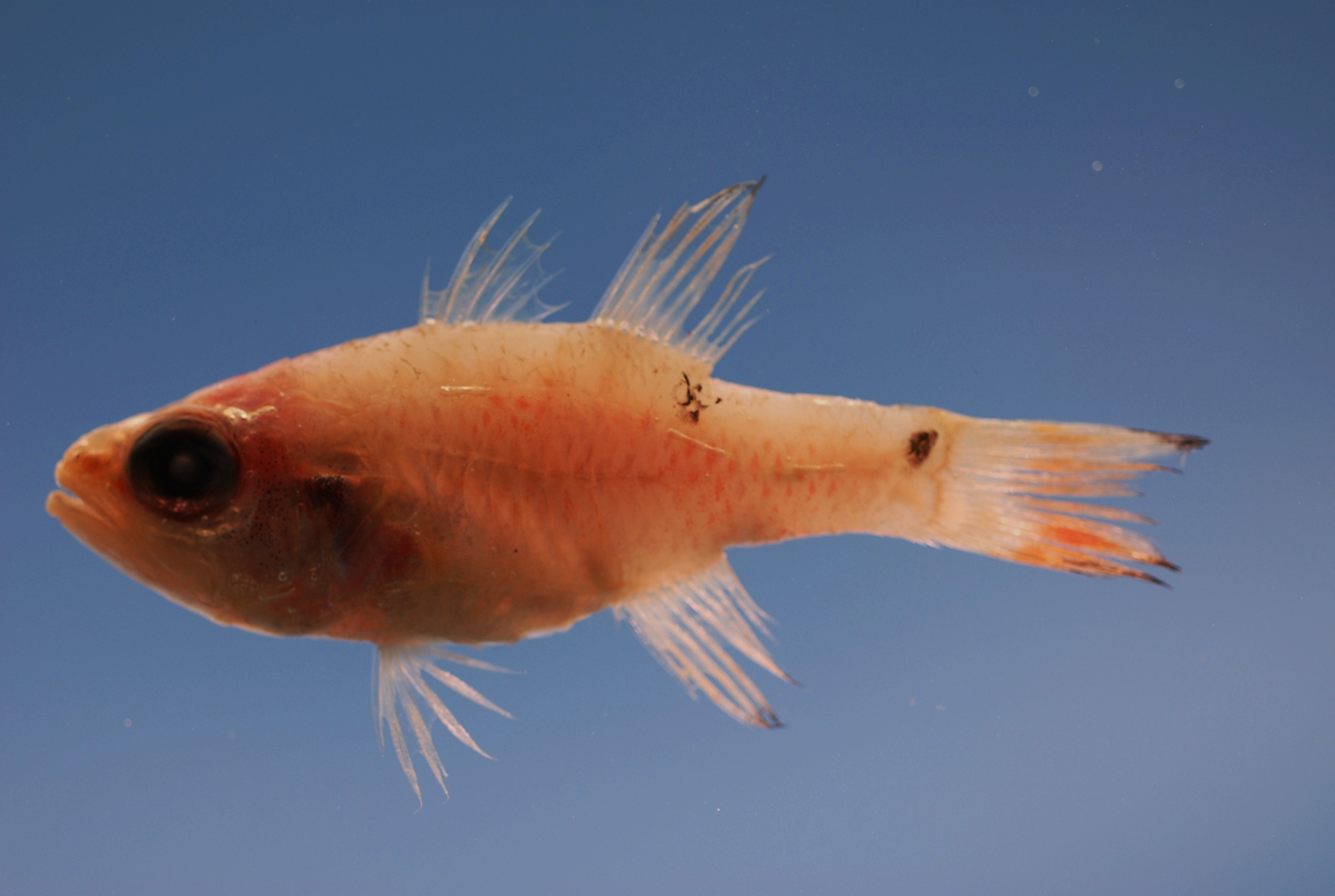 Twospot cardinalfish ( Apogon pseudomaculatus ). Gulf of Mexico.